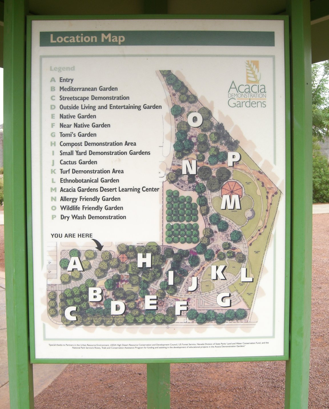 A map of the Acacia Demonstration Gardens in Henderson, Nevada. This map was found and photographed inside the park.